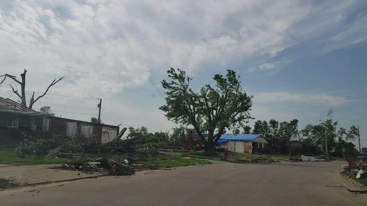 Tornado Damage from Brookville, OH on July 3, 2019